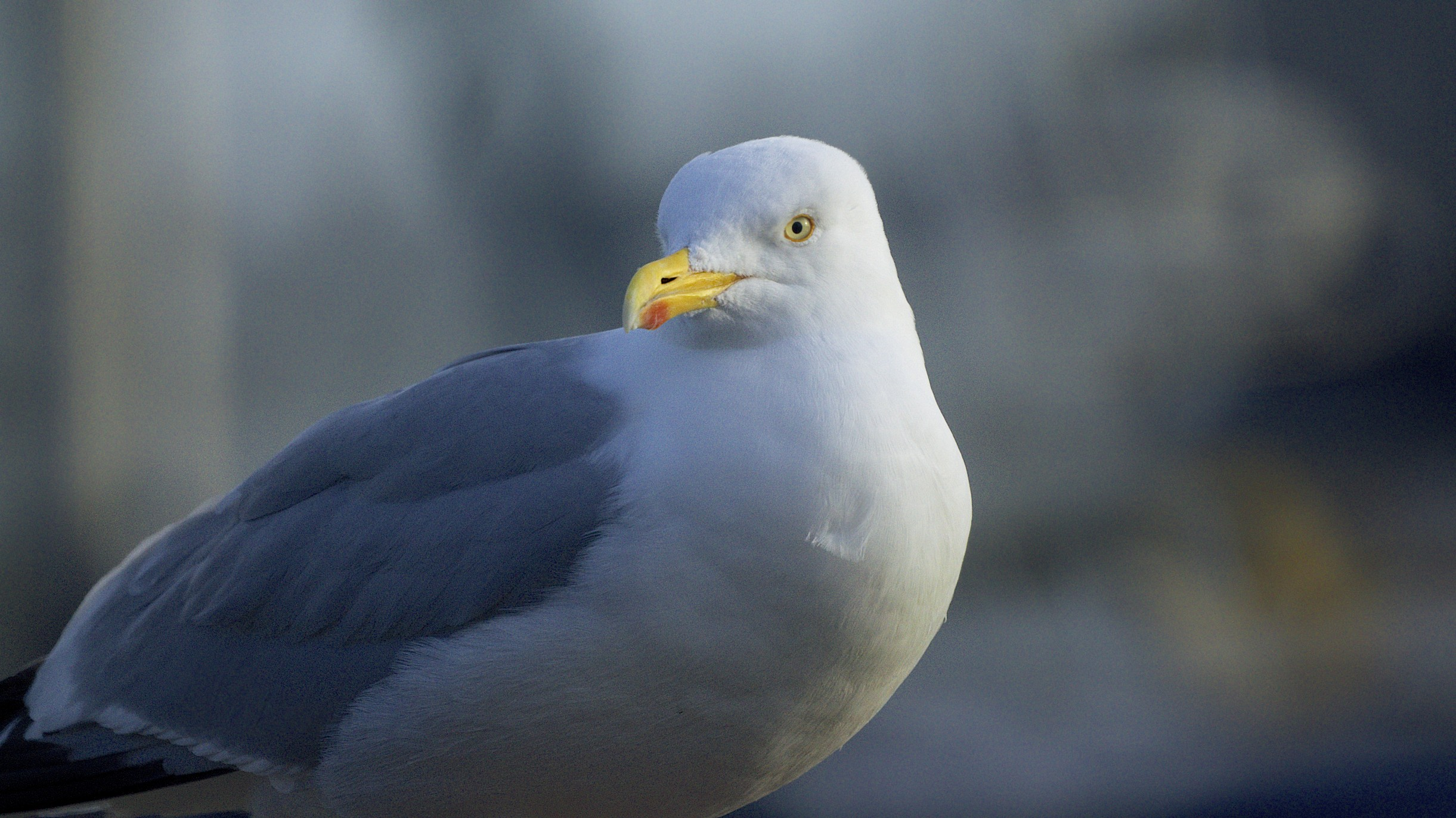 ...in its eye. A fine Herring Gull on Poole Quay.